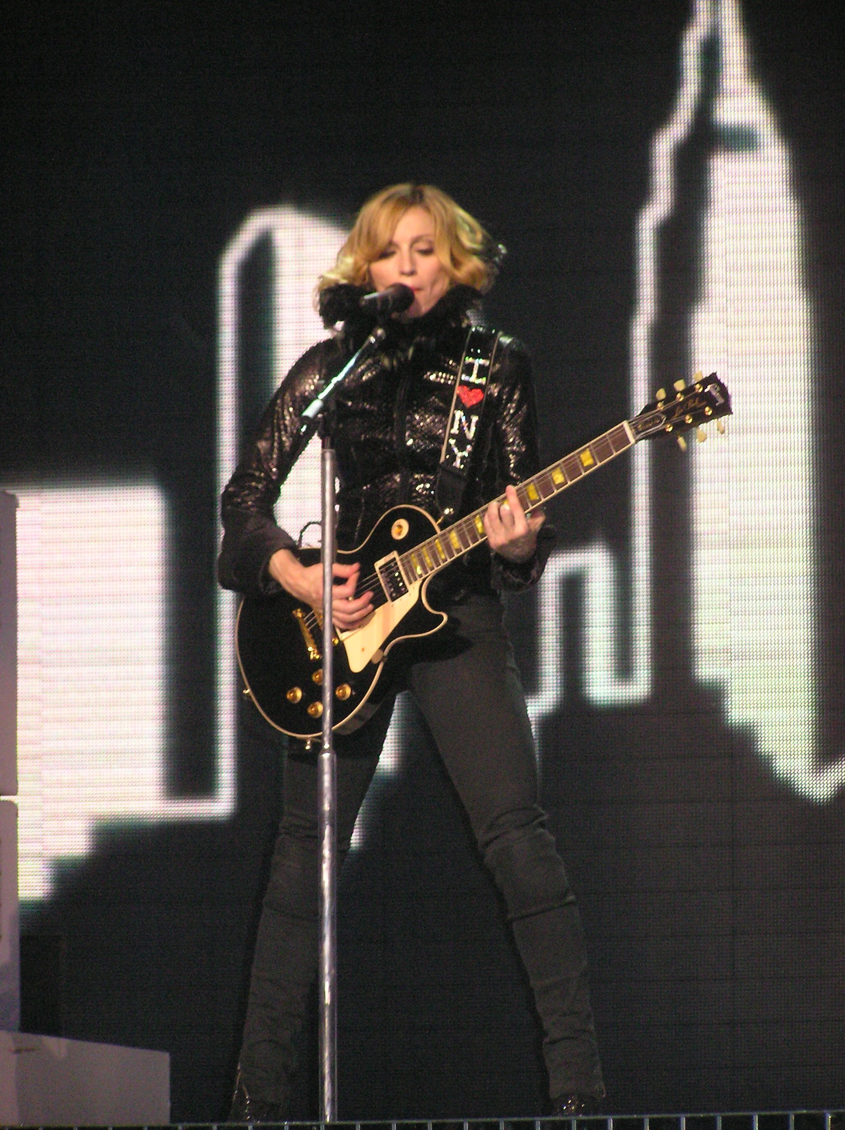 Madonna concert in Fresno